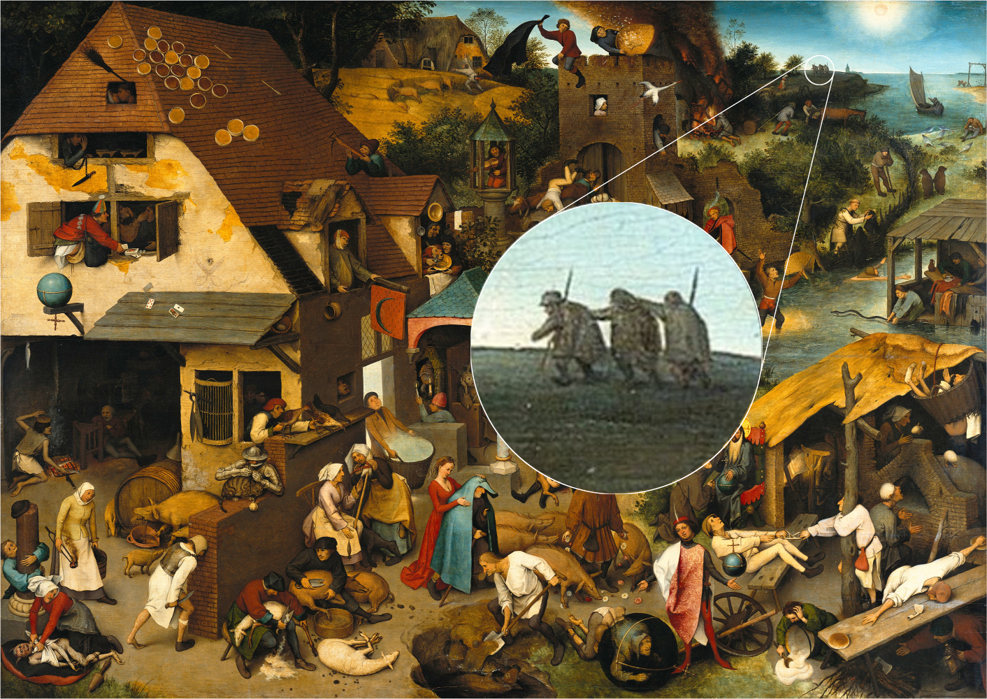 Detail of Pieter Bruegel the Elder's Netherlandish Proverbs.